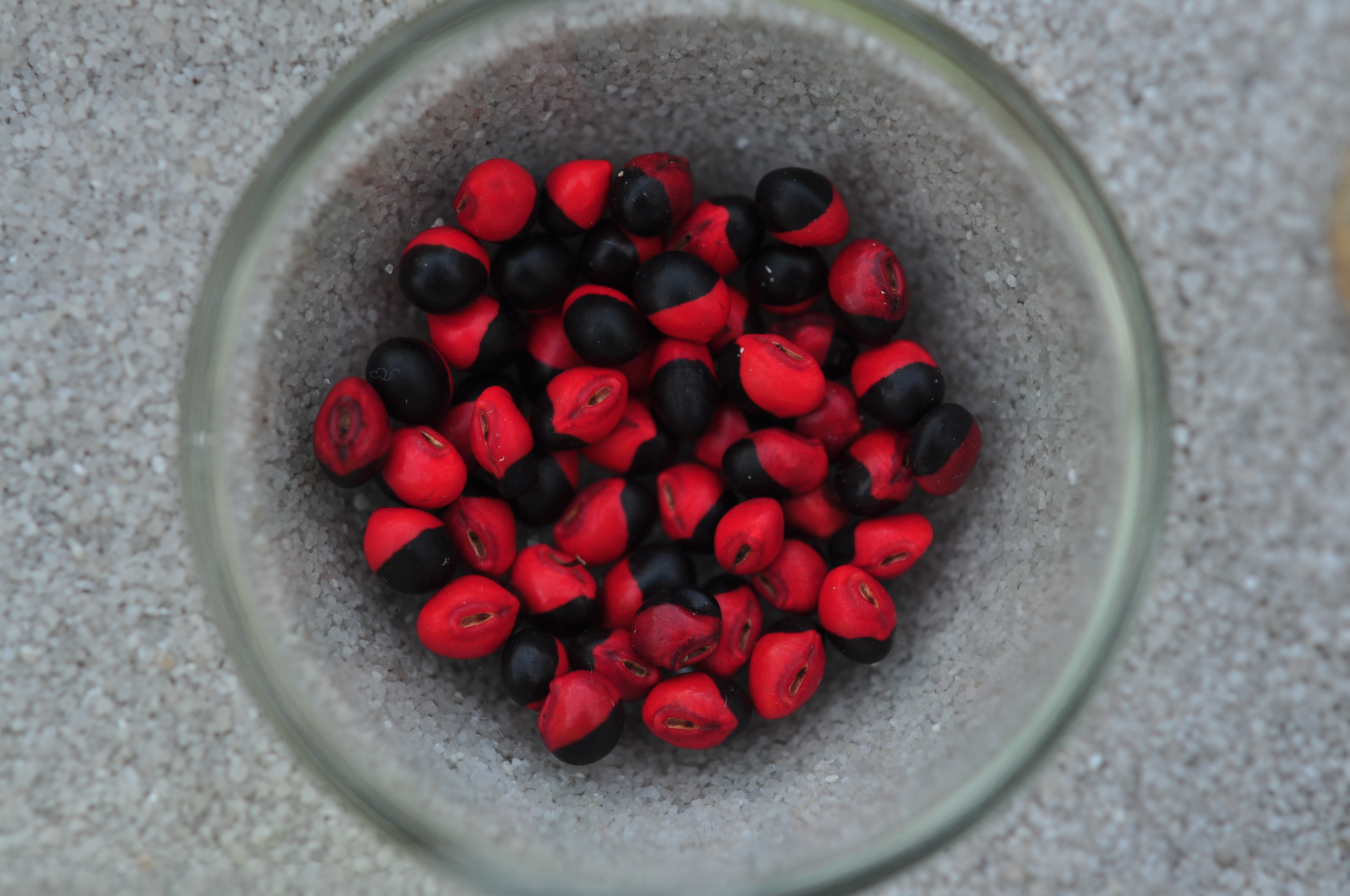 Crabseye